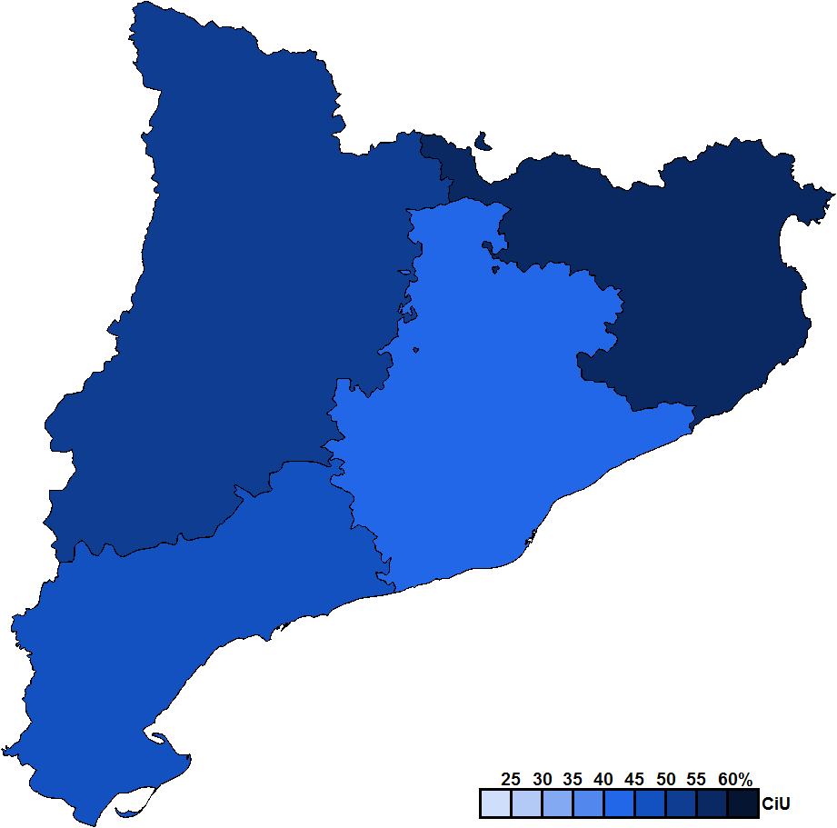 Provincial results for the 1988 Catalan regional election.